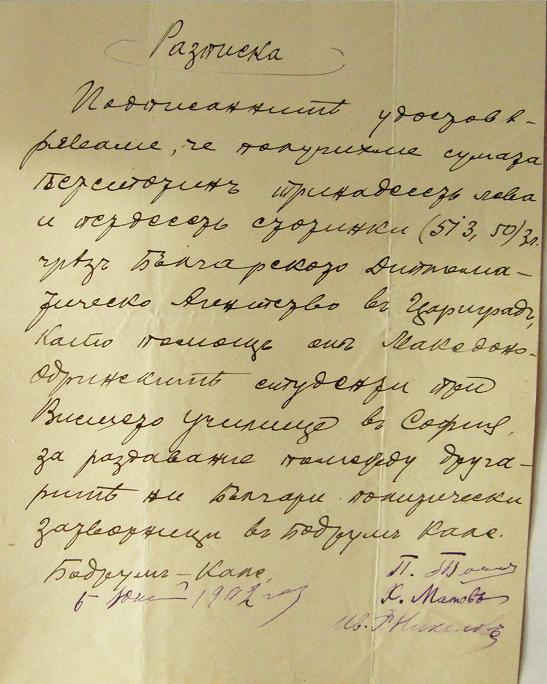 Note signed by Pere Toshev, Ivan Hadjinikolov and Hristo Matov, declering themselves as bulgarians